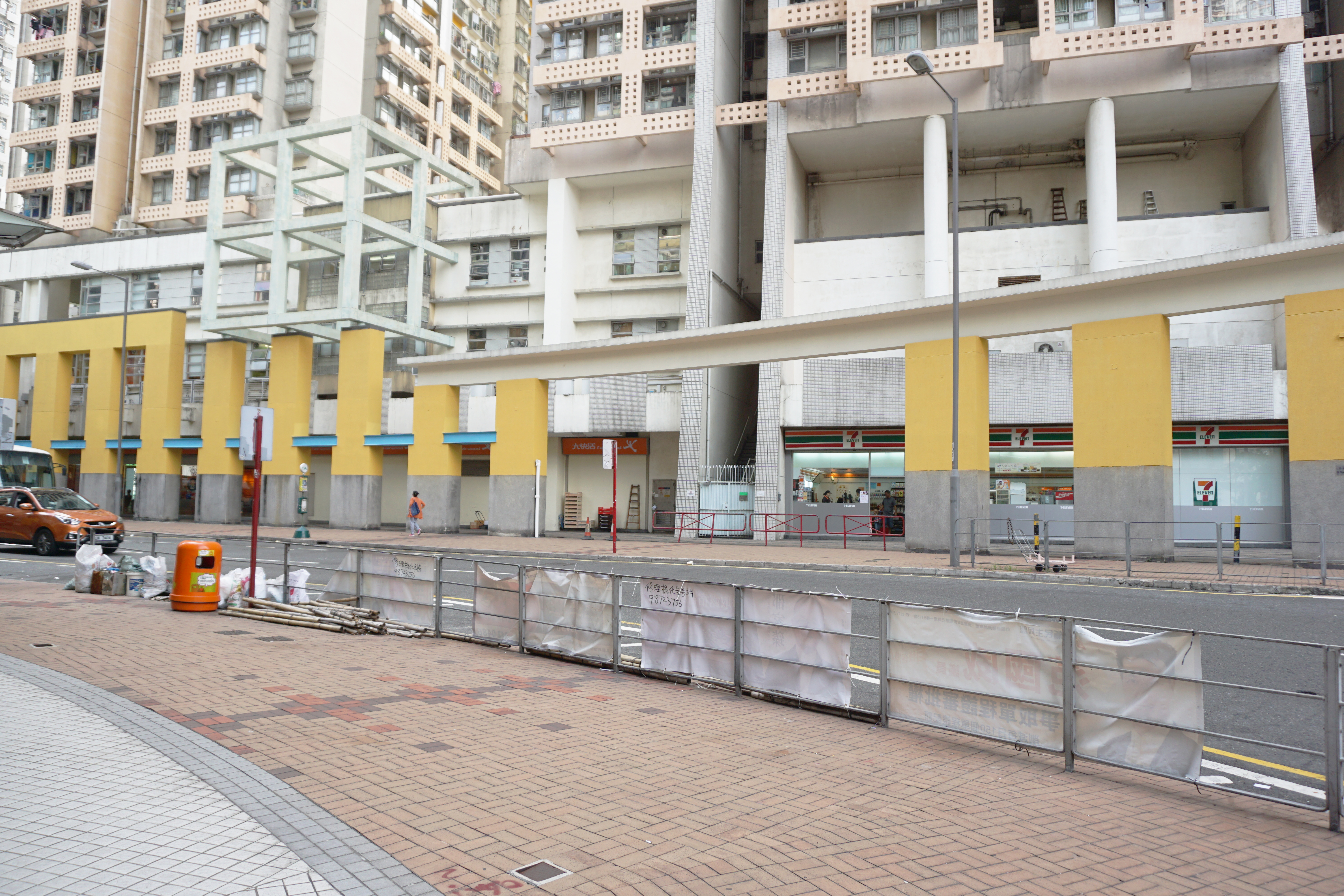 Verbena Heights in Po Lam, Hong Kong.